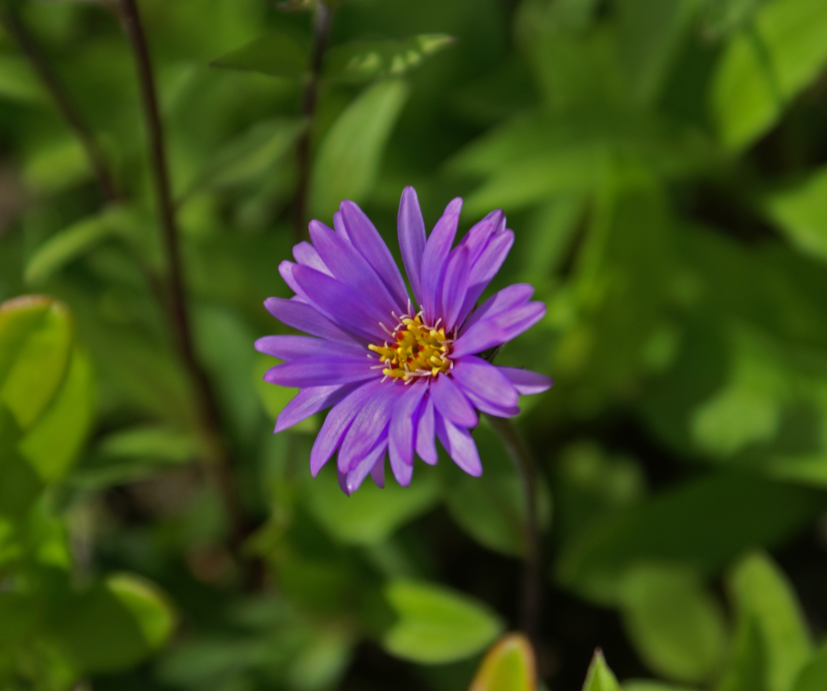 Siberian Aster or Arctic Aster. From Aursunden, near Røros, Norway. This is the only place it grows in Norway.